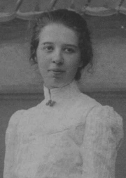 Clara Wichmann (1885–1922), Dutch–German lawyer, anarcho-syndicalist, feminist, atheist.